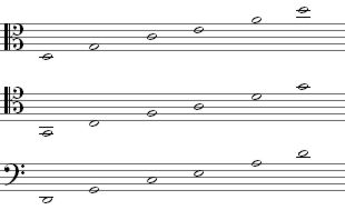 Viol tuning.